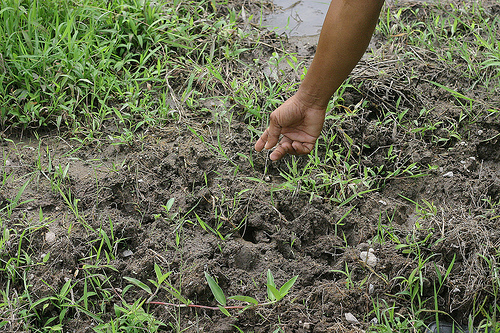 Wild Boar huff track, Maninjau Rainforest, West Sumatra